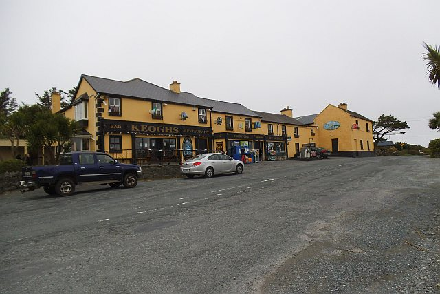 Keogh's Ballyconneely - Ballyconneely Townland